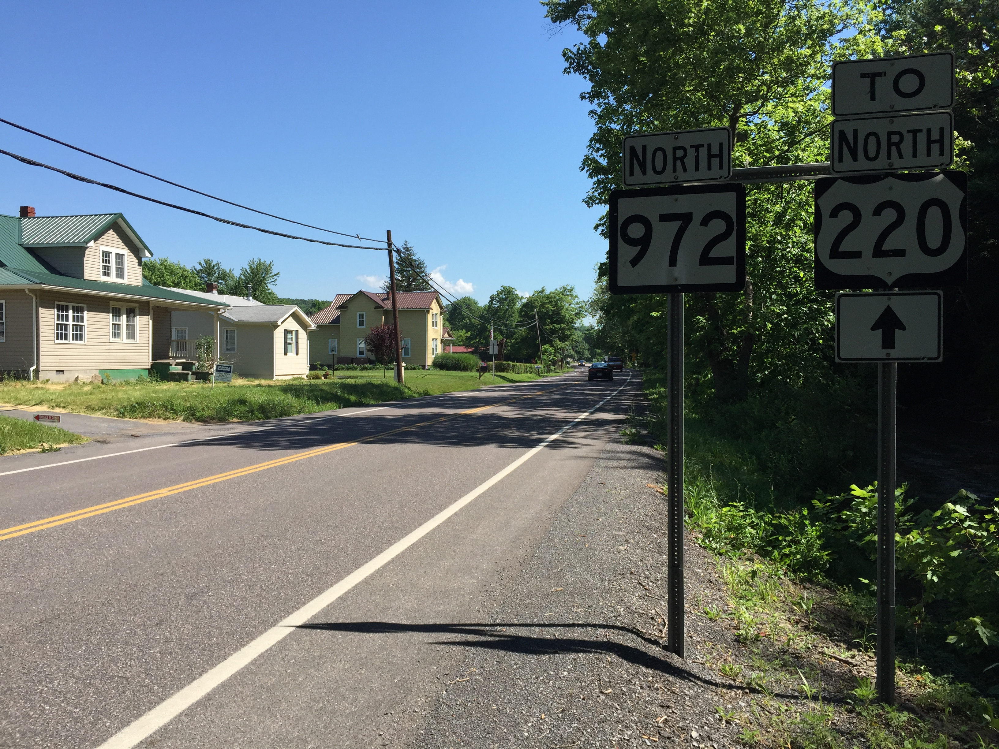 View north at the south end of West Virginia State Route 972 (New Creek Highway) just north of U.S. Route 50 (George Washington Highway) in New Creek, Mineral County, West Virginia